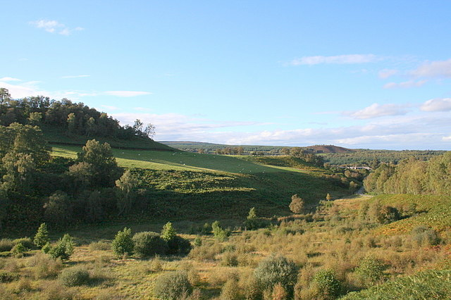 Remains of Dunearn Fort to the left with Dulsie Farm buildings centre right.